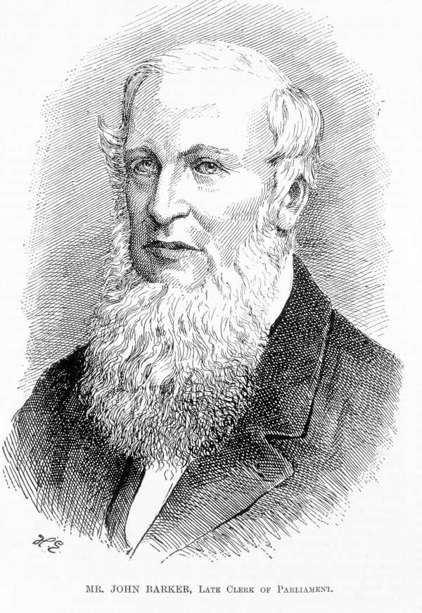 MR. JOHN BARKER, Late Clerk of Parliament. Date(s) of creation: Dec. 1, 1891. print : wood engraving. Accession No: IAN01/12/91/16 Image No: mp007735 Published: Illustrated newspaper file. Illustrated Australian news.